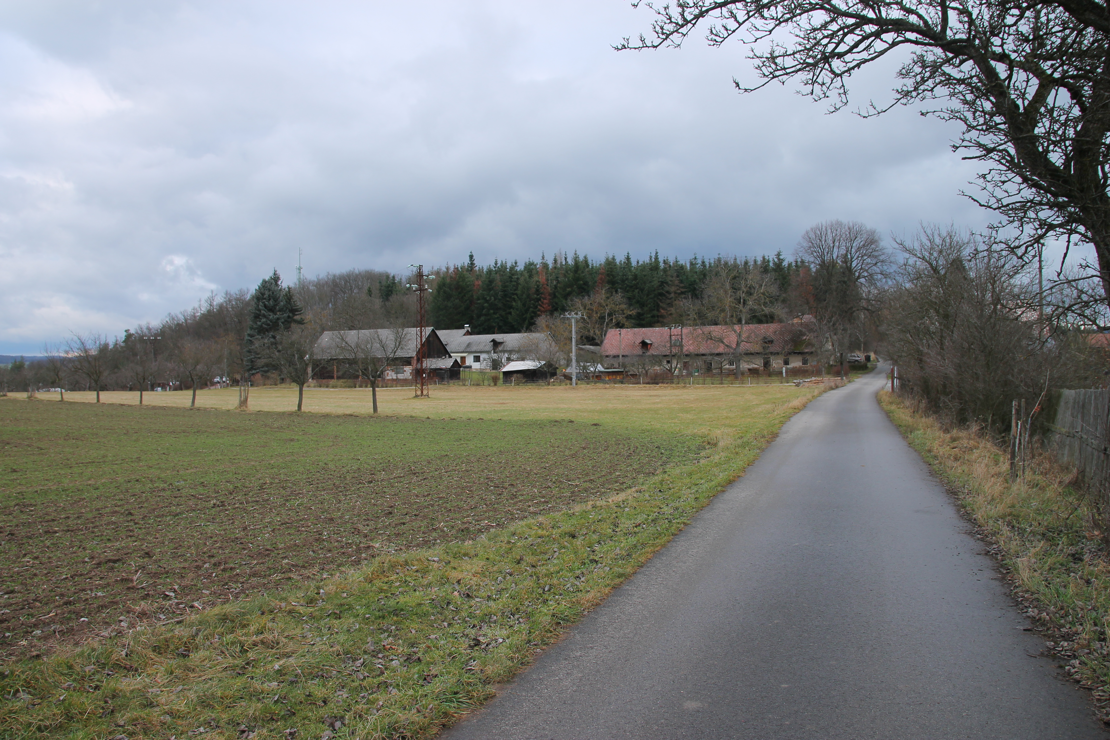 Dubsko